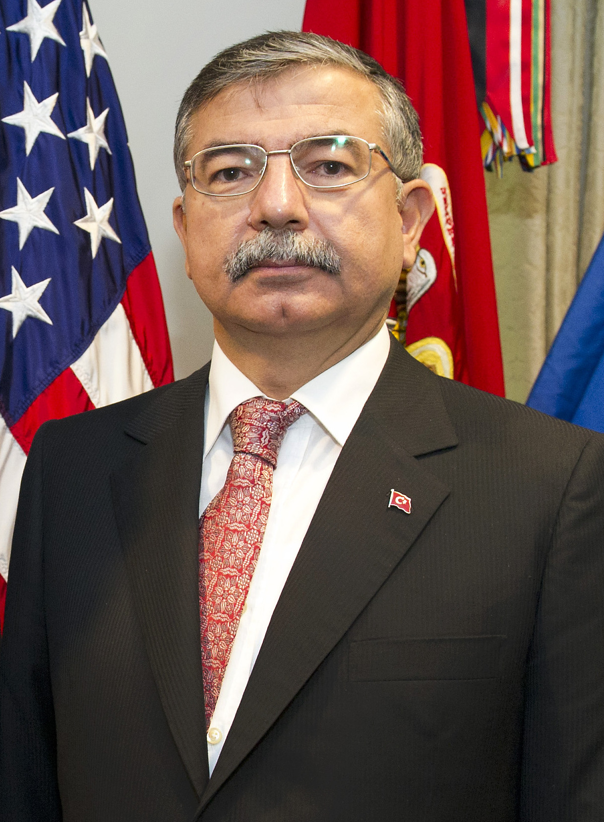 Minister of National Defense of Republic of Turkey, İsmet Yılmaz